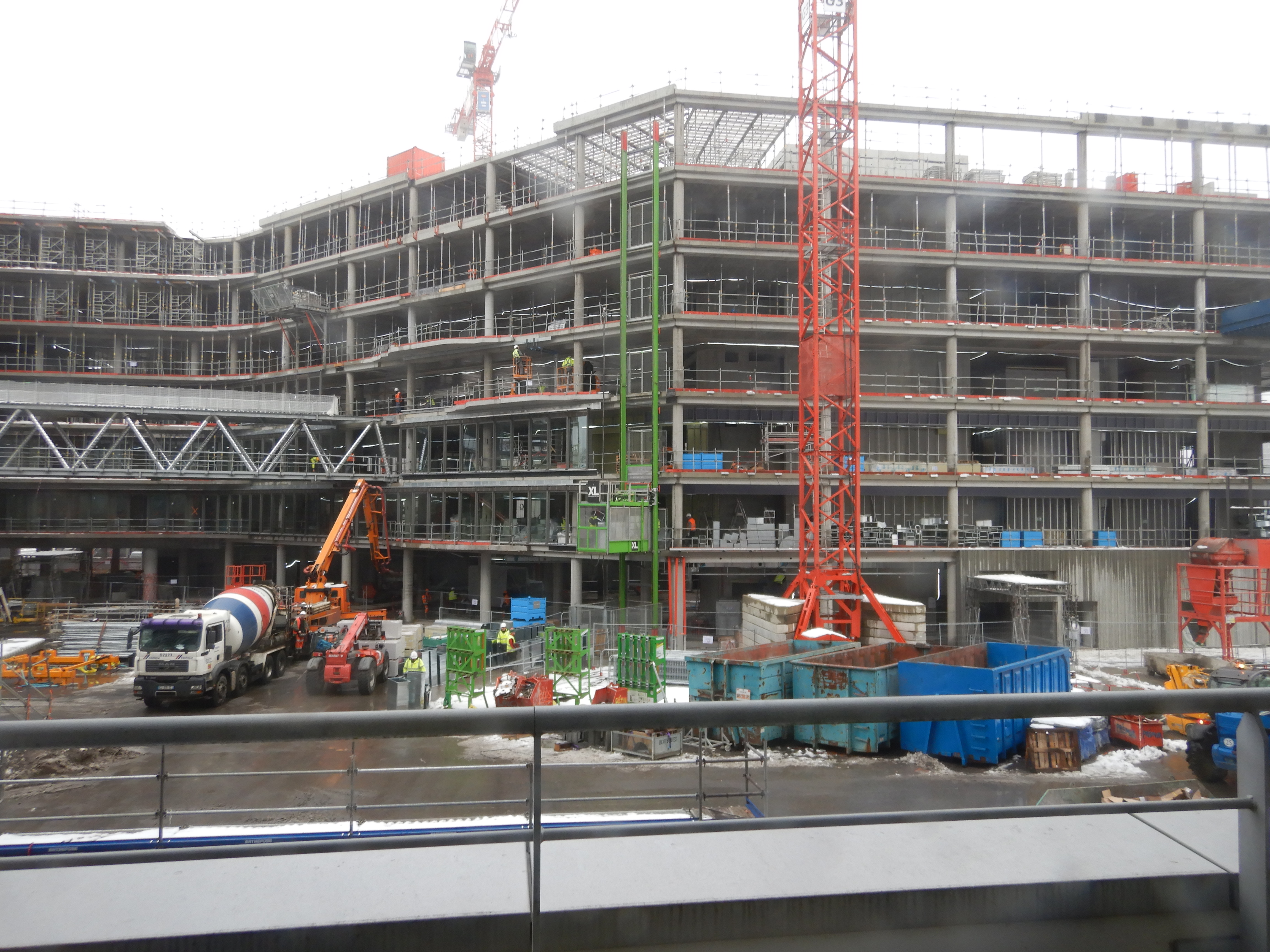 Construction site of the new headquarters of the MEL (European Metropolis of Lille) on january 2019